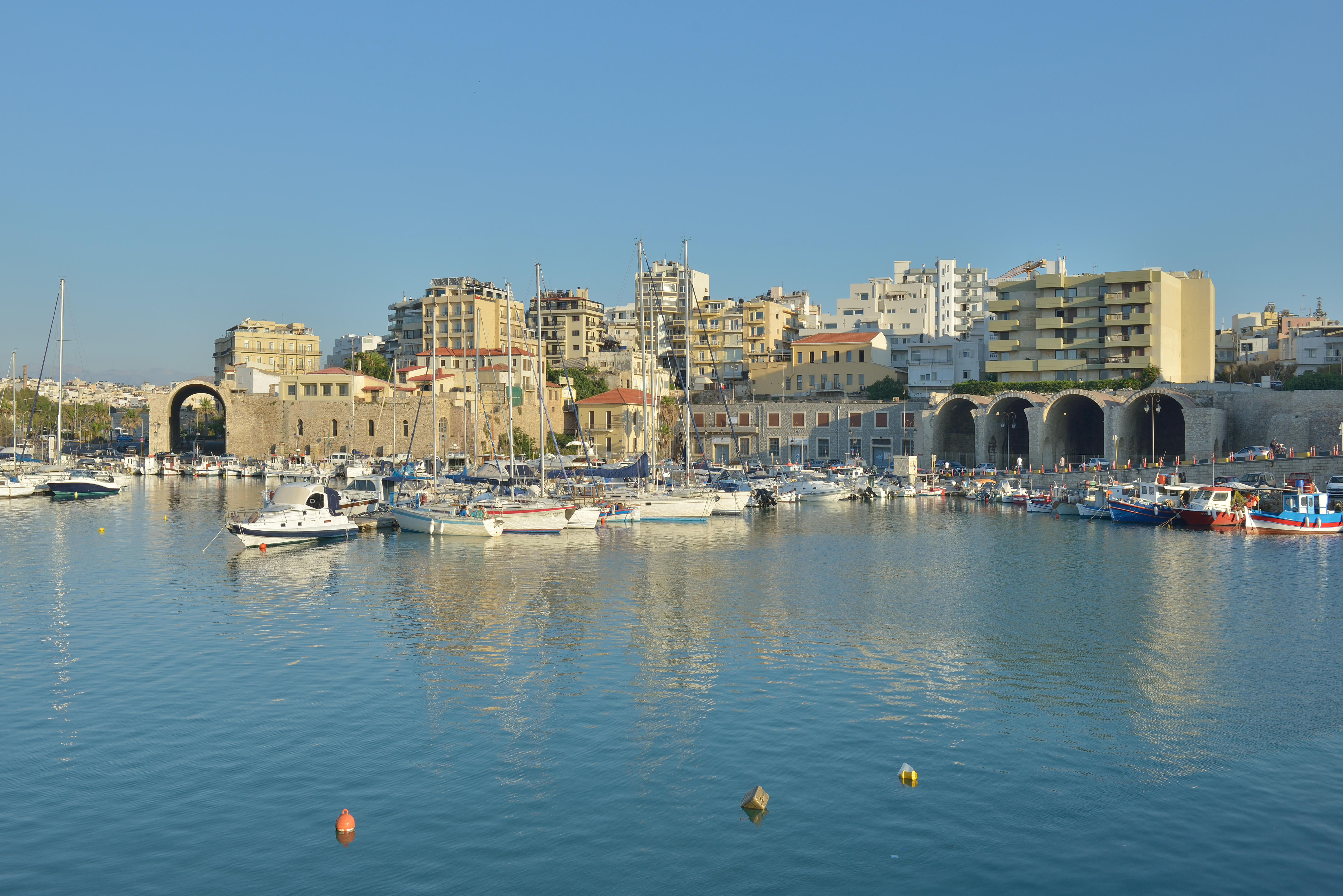 Venetian Arsenal in Heraklion in Crete.